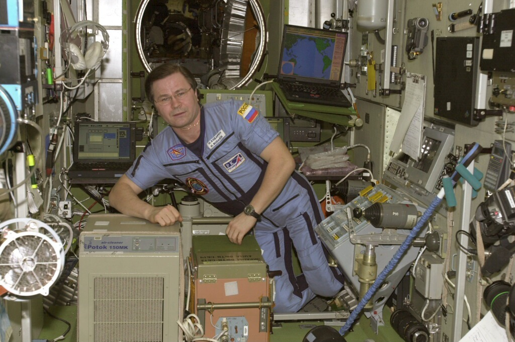 Cosmonaut Nikolai M. Budarin, Expedition Six flight engineer, is pictured near the Potok 150MK air decontamination equipment in the Zvezda Service Module on the International Space Station (ISS). Budarin represents Rosaviakosmos